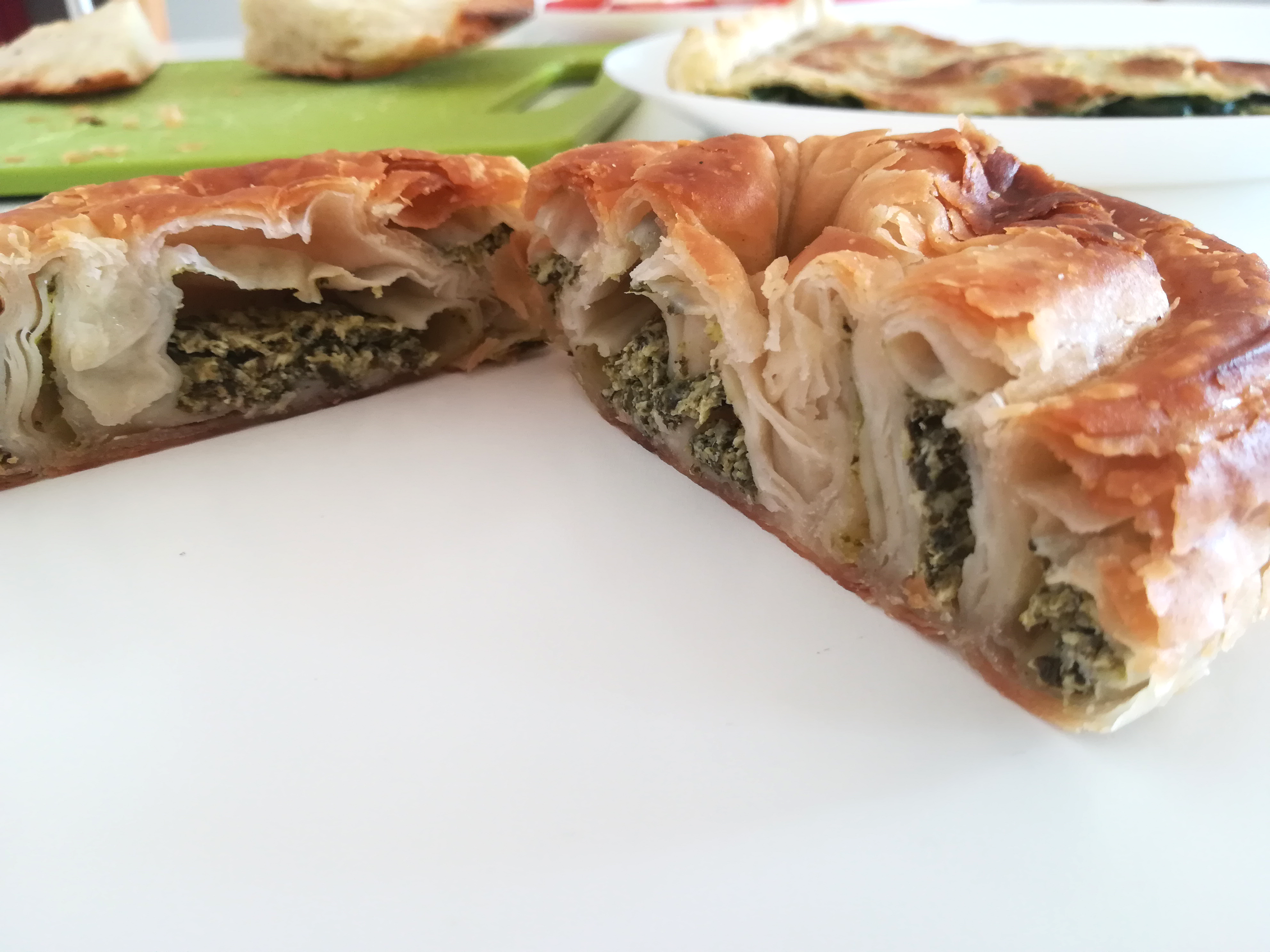 Börek is a family of baked filled pastries made of a thin flaky phyllo dough.